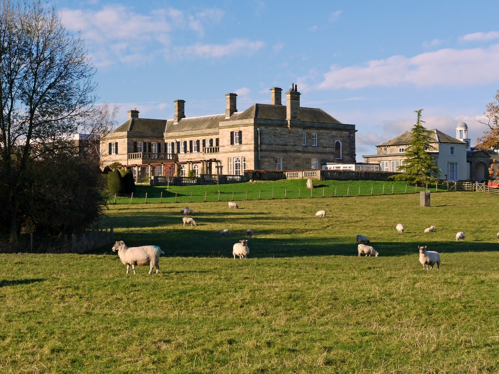 Kirkley Hall, near Ponteland, Northumberland, England.